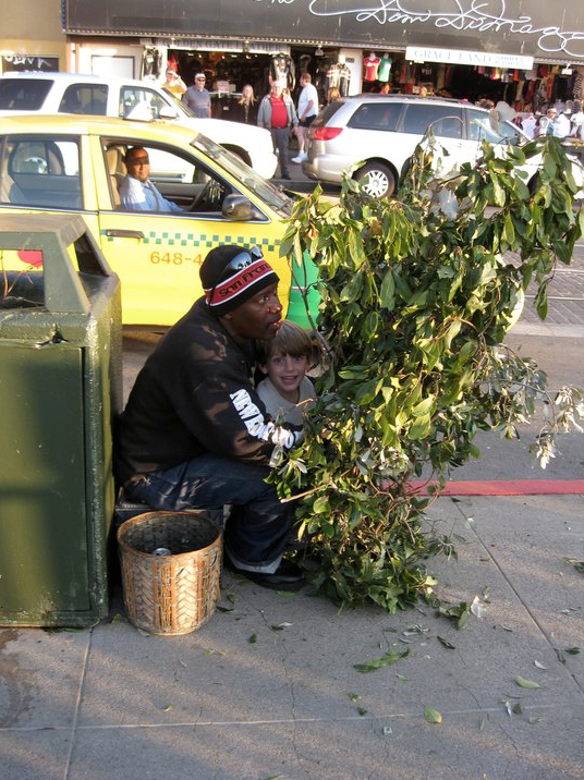 My son loved the idea of scaring people, so he joined in. The Bush-Man was very happy to have an accomplice and was very kind and gentle with my son.